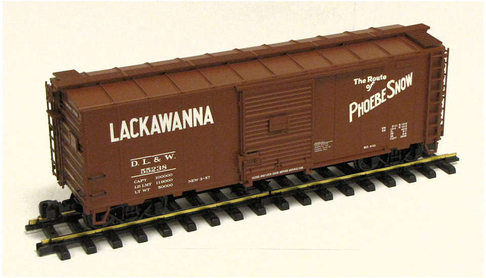 1:29 G-Scale Railroad Boxcar by Aristo-Craft on G-Gauge Track. Boxcar shows logos of the Lackawanna (DL&W) Railroad and their phrase, "The Route of Phoebe Snow."